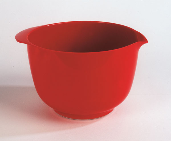 Rosti Margrethe Bowl designed by Jacob Jensen, 1950